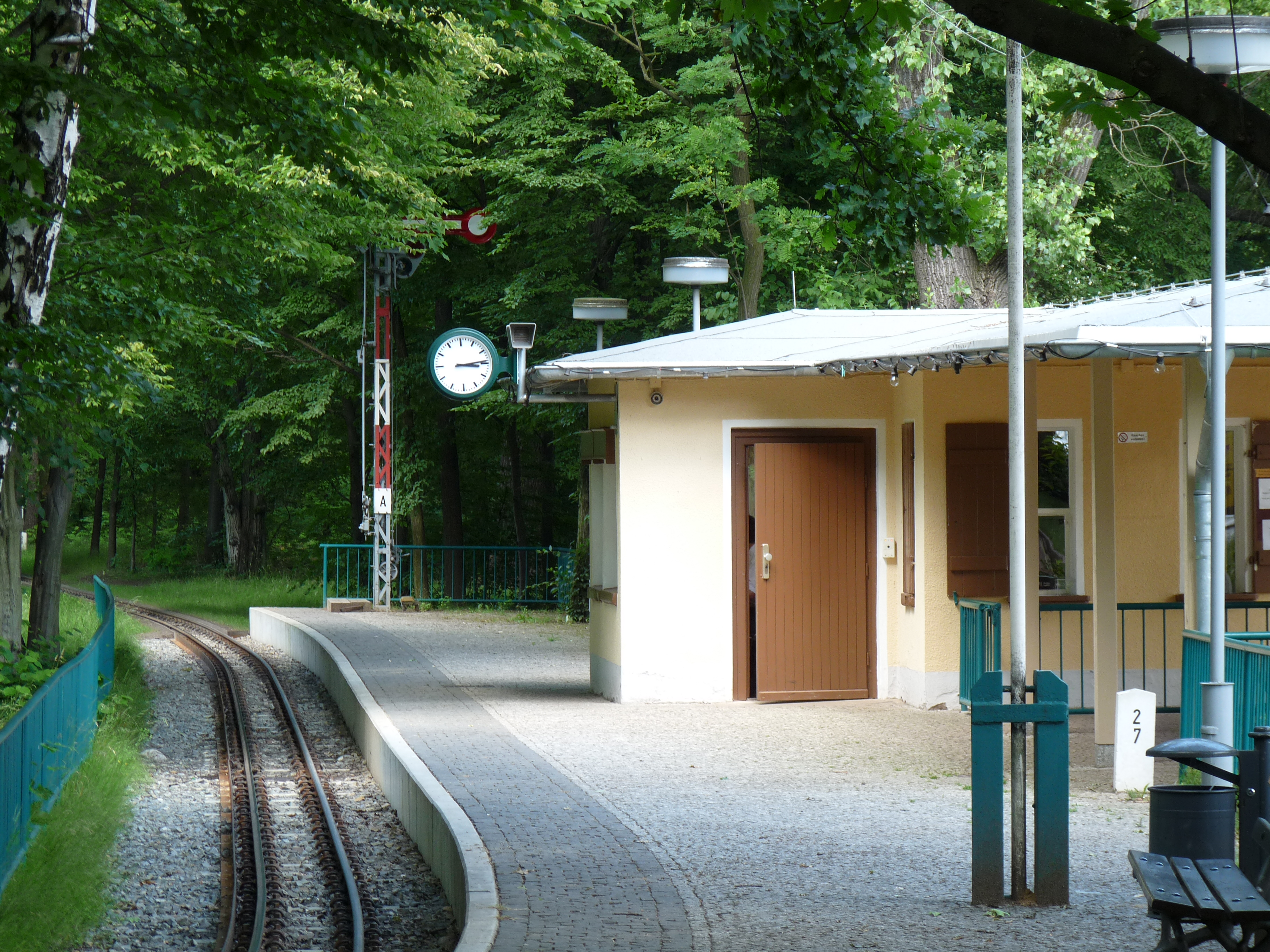 Dresden parkrailway station "Karcherallee"